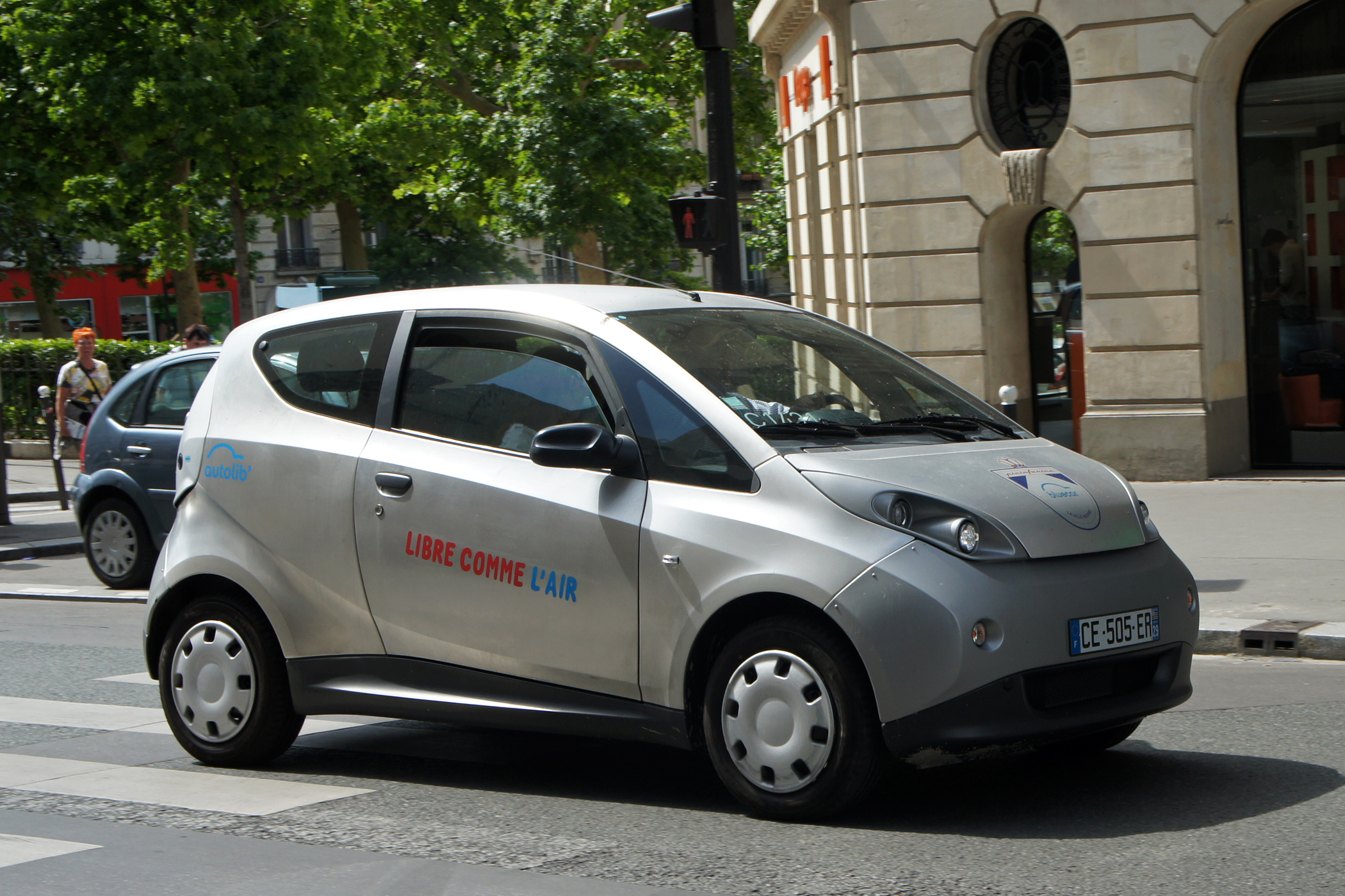 Bolloré Bluecar from the Autolib' carsharing service on Rue de Vaugirard in Paris